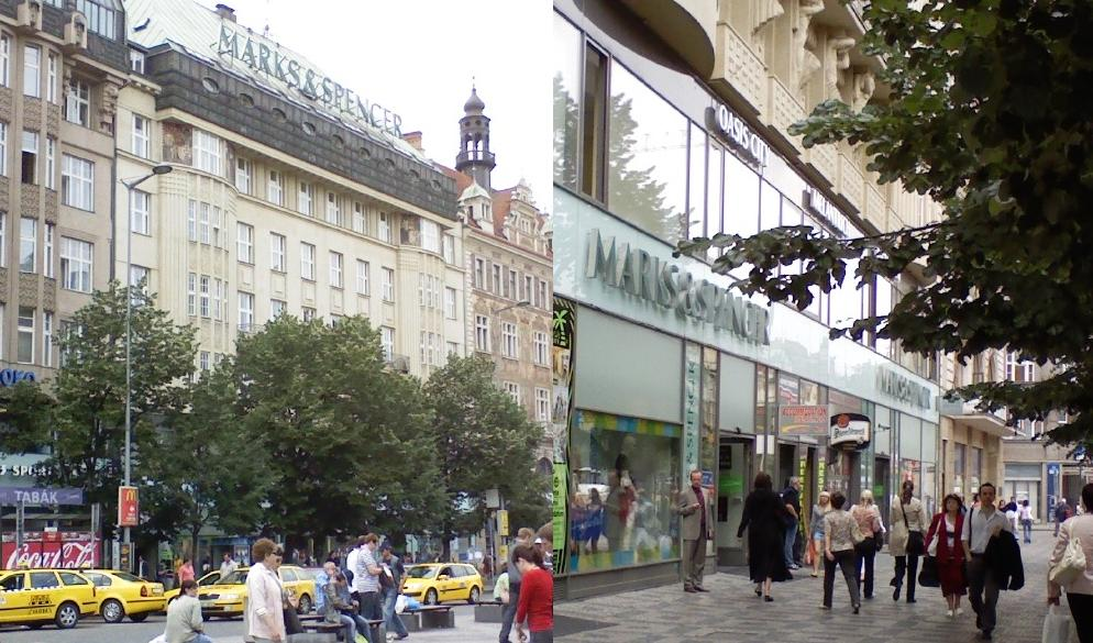 Praha-Nové Město, Václavské náměstí 36, budova Melantrichu, dnes Marks & Spencers.